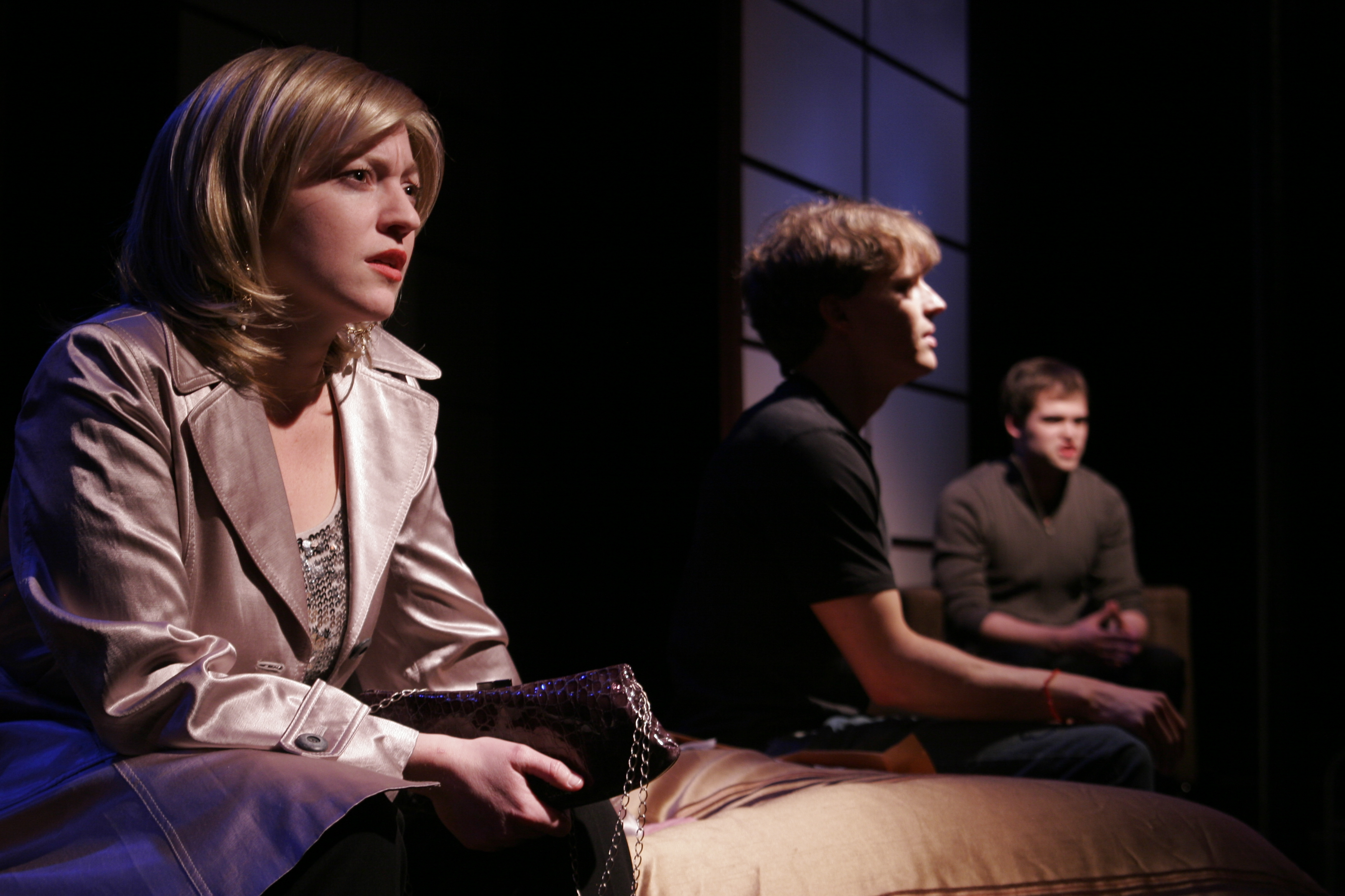 Barksdale Theatre's production of The Little Dog Laughed at Willow Lawn in 2008.